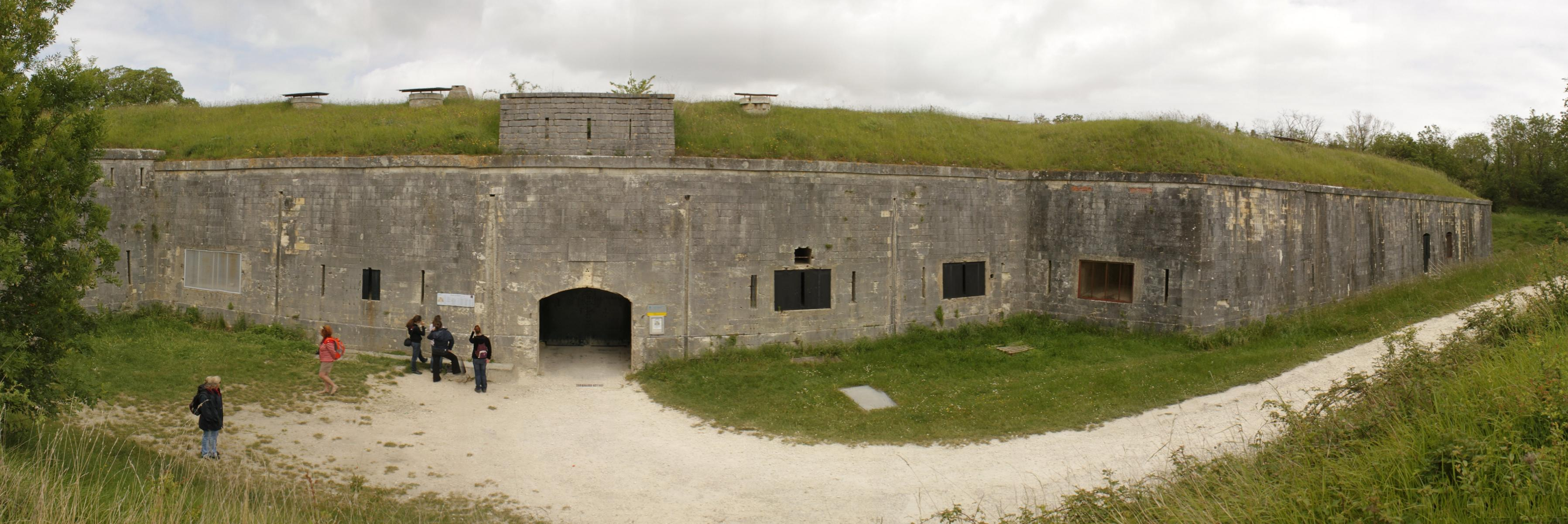 Fort Liédot, 1810-1834, Fr-17 Île d'Aix. South-west panoramic view.